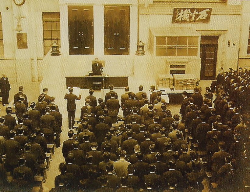 Ritsumeikan University Commencement in 1938